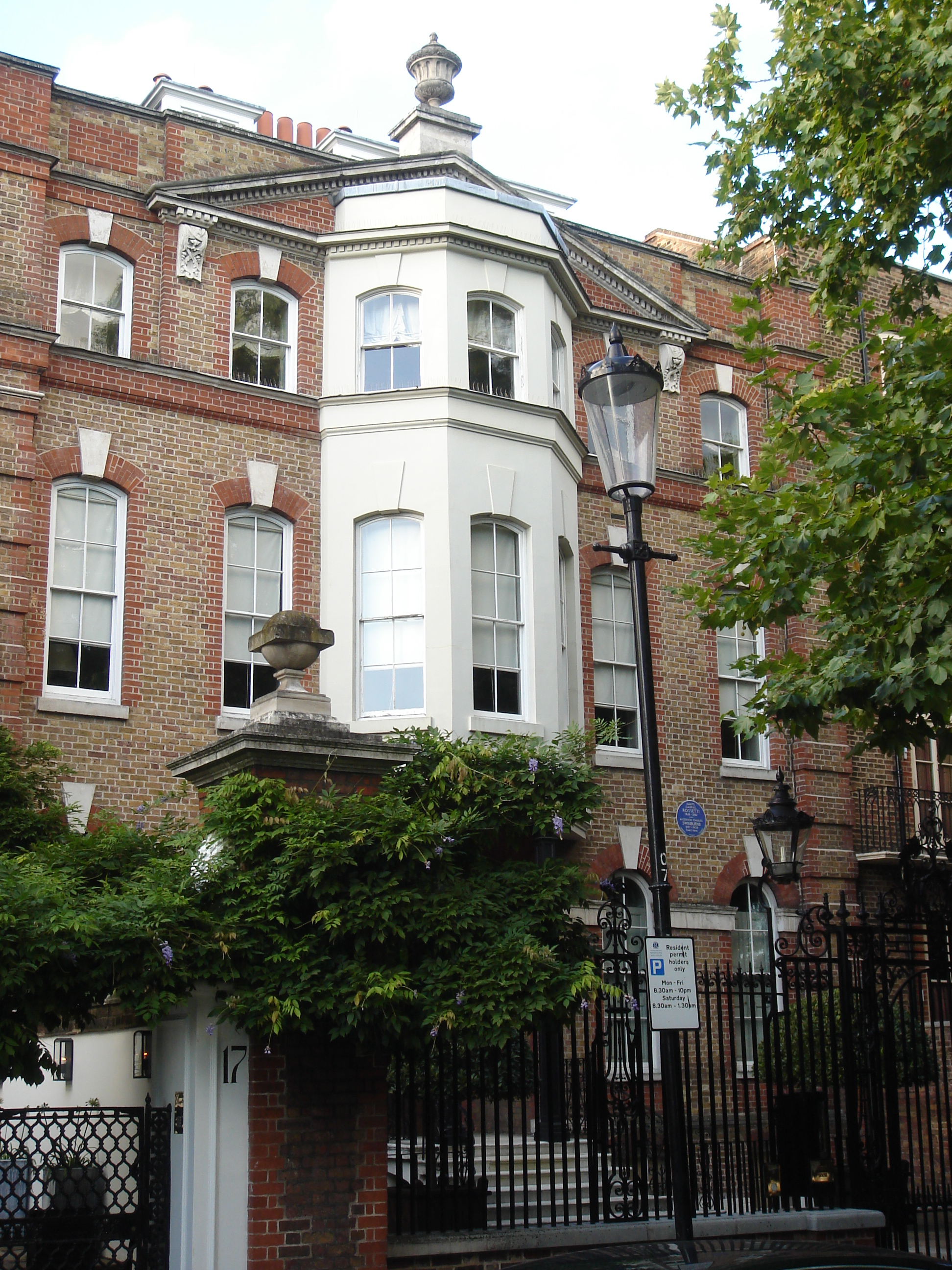 16 Cheyne Walk